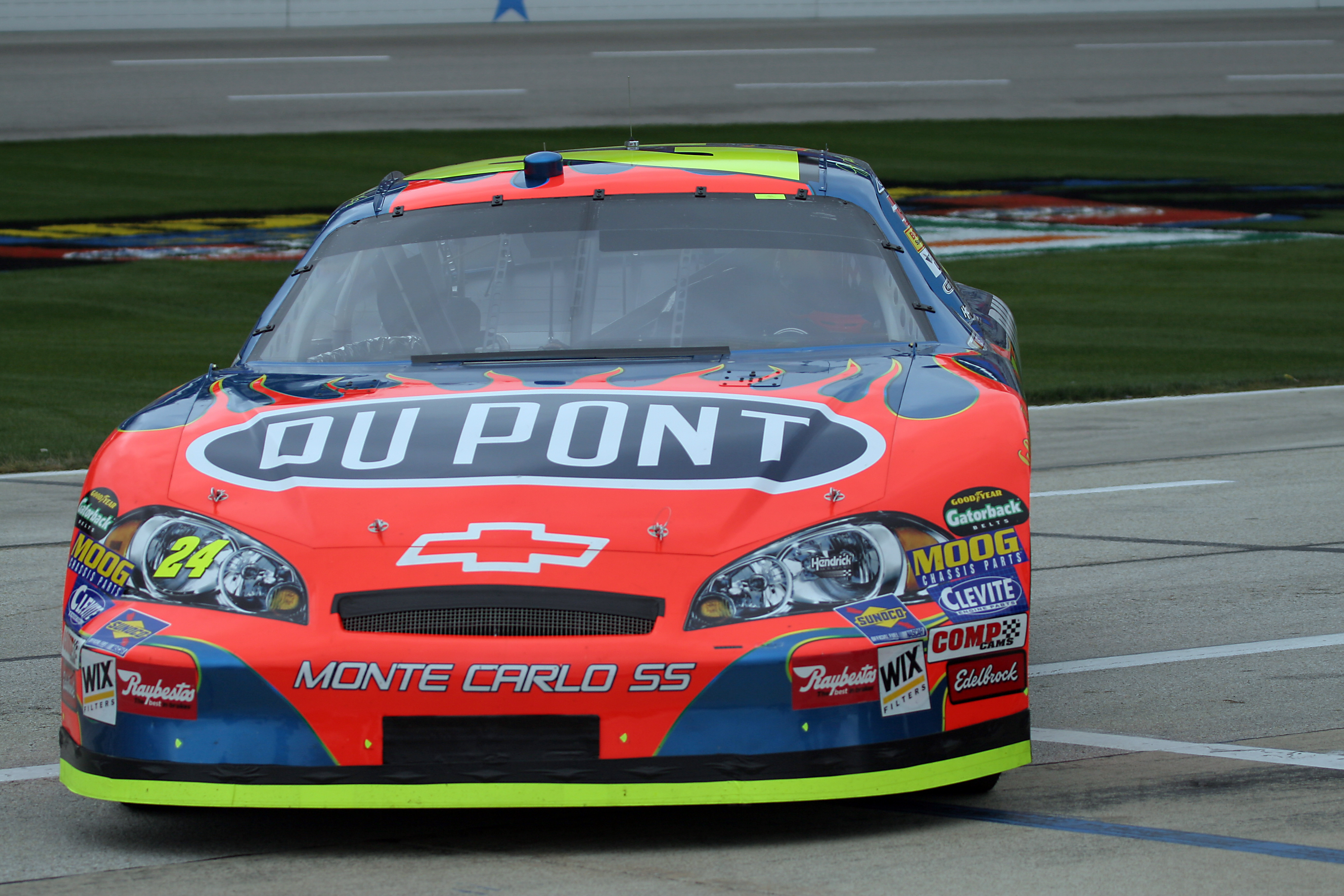 NASCAR driver Jeff Gordon pulls into the pits at Texas in 2007